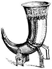 Drinking horn